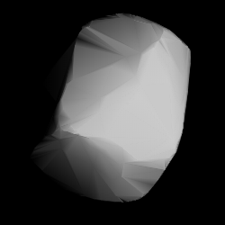 3D convex shape model of 1681 Steinmetz, computed using light curve inversion techniques. J. Hanuš, J. Ďurech, M. Brož, B. D. Warner (June 2011). "A study of asteroid pole-latitude distribution based on an extended set of shape models derived by the lightcurve inversion method". Astronomy and Astrophysics 530: A134. ISSN 0004-6361. arXiv